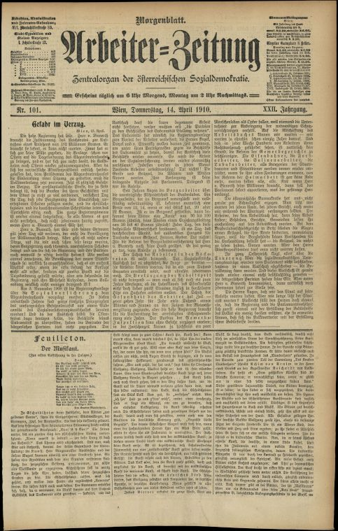 The front page of the Vienna newspaper Arbeiter-Zeitung, 14 April 1910.